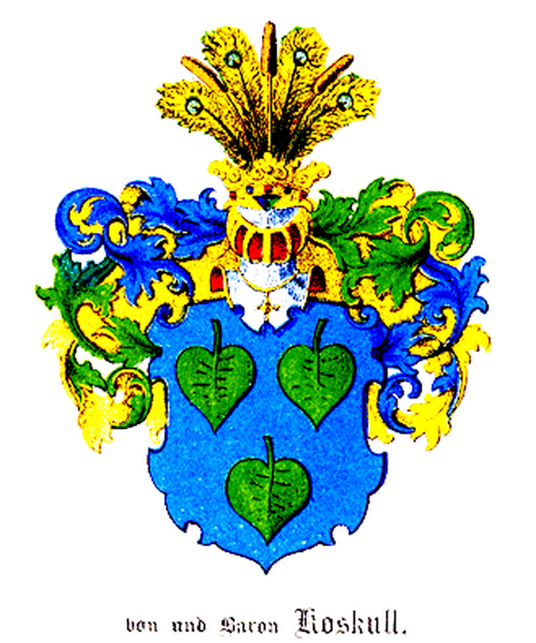 Swedish, Estonian and Russian noble COA Rehbinder